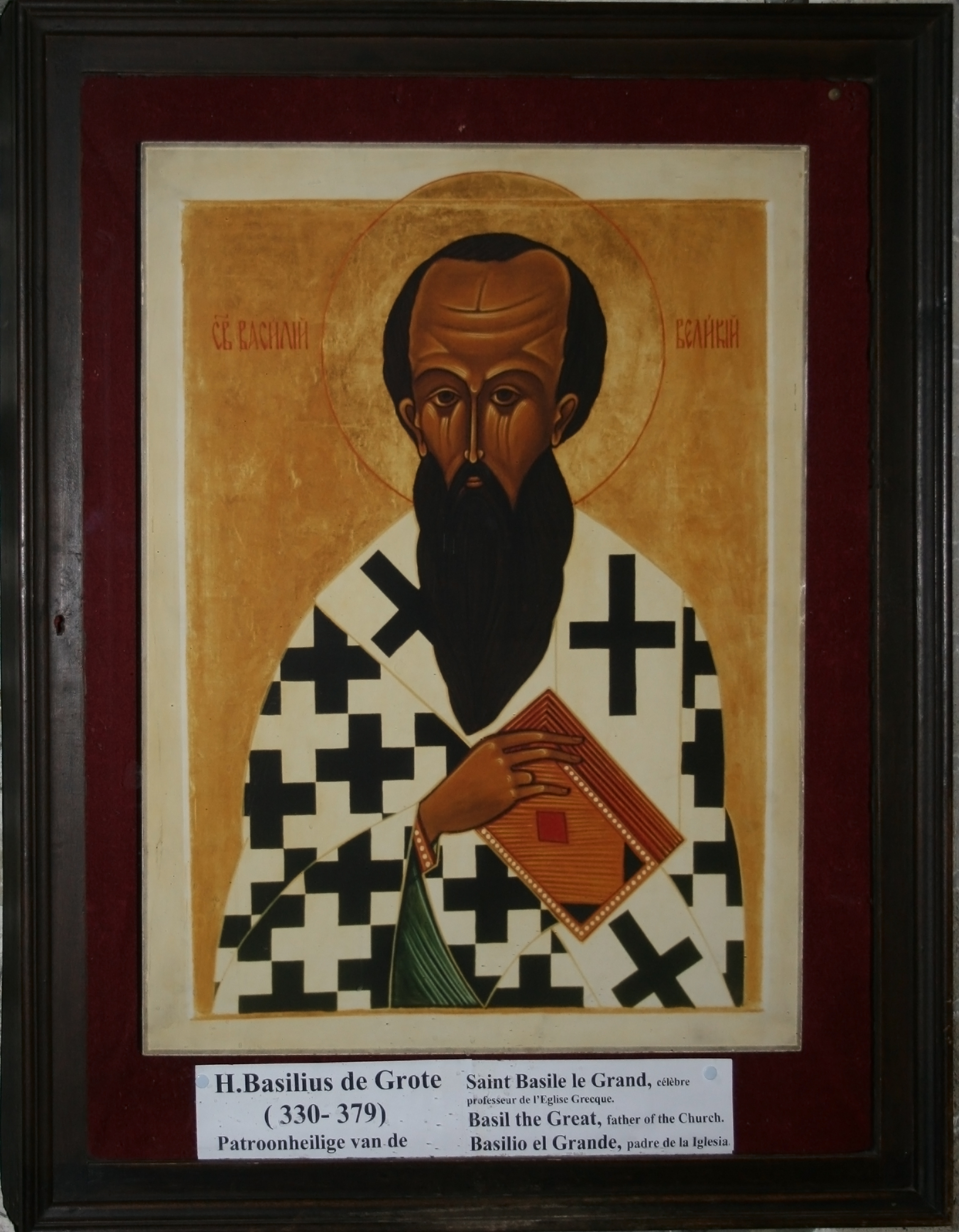 Basil the Great, father of the church